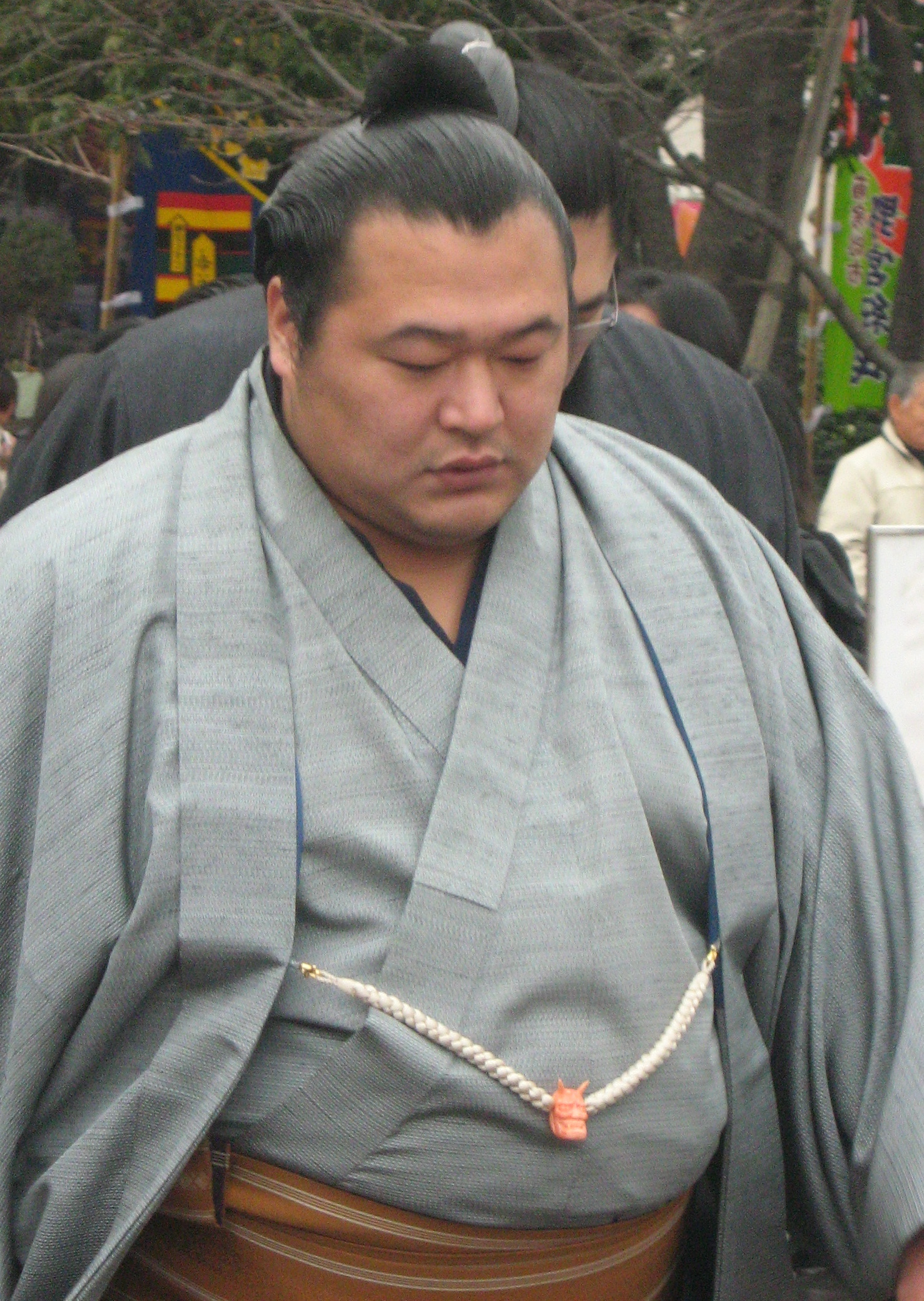 taken at 2008 Jan tournament